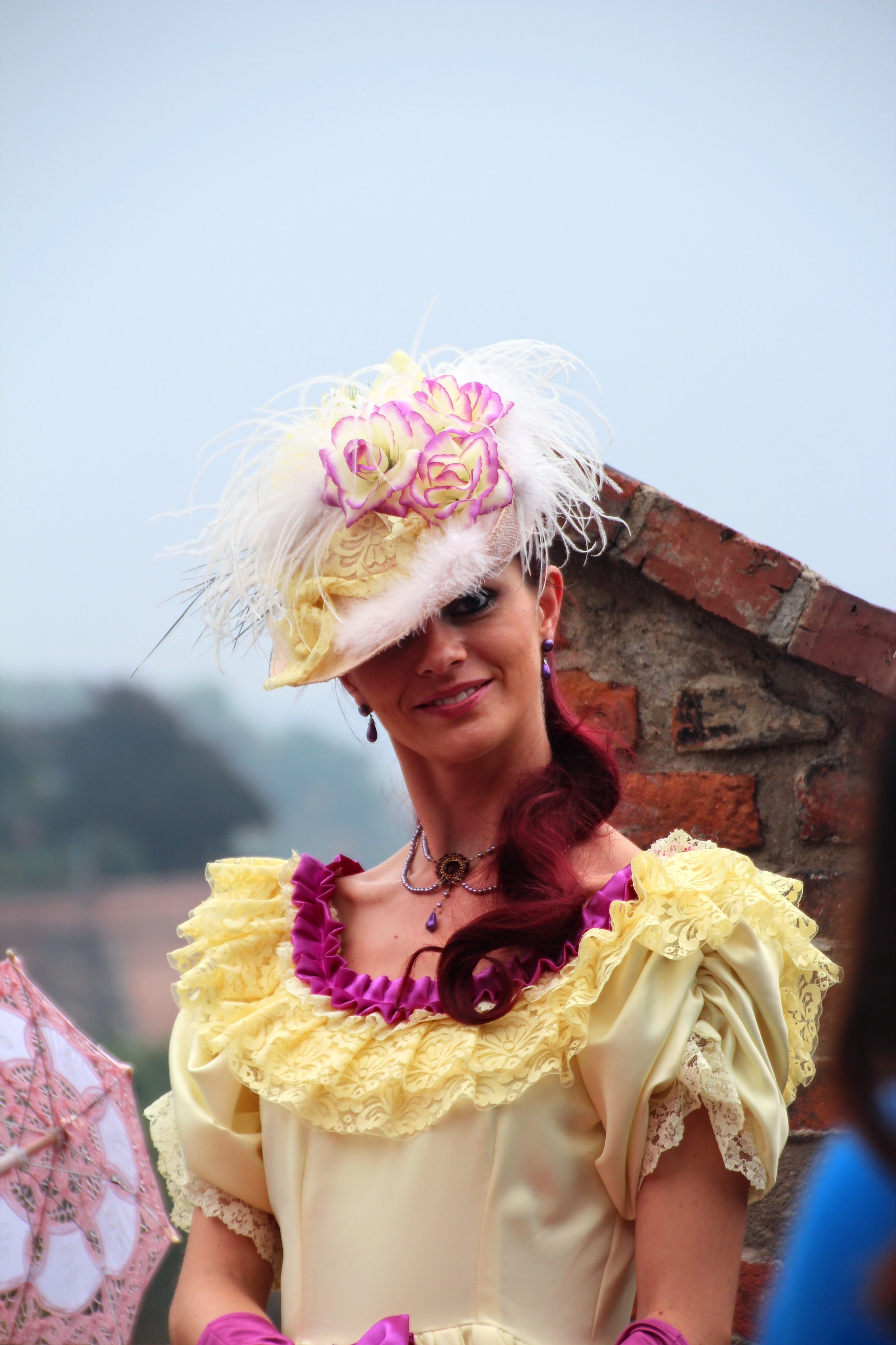 Portrait of a woman posing in historical dress and fashion hat near the Prague Castle, in Prague, Czech Republic